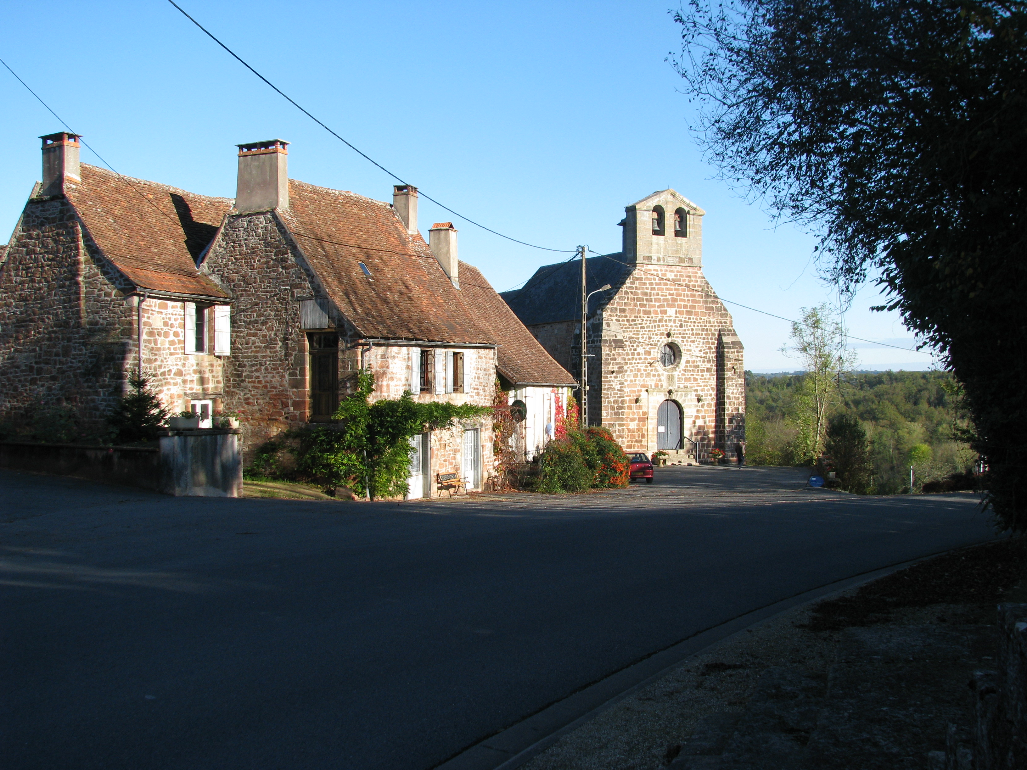 Boisseuilh, Dordogne, France